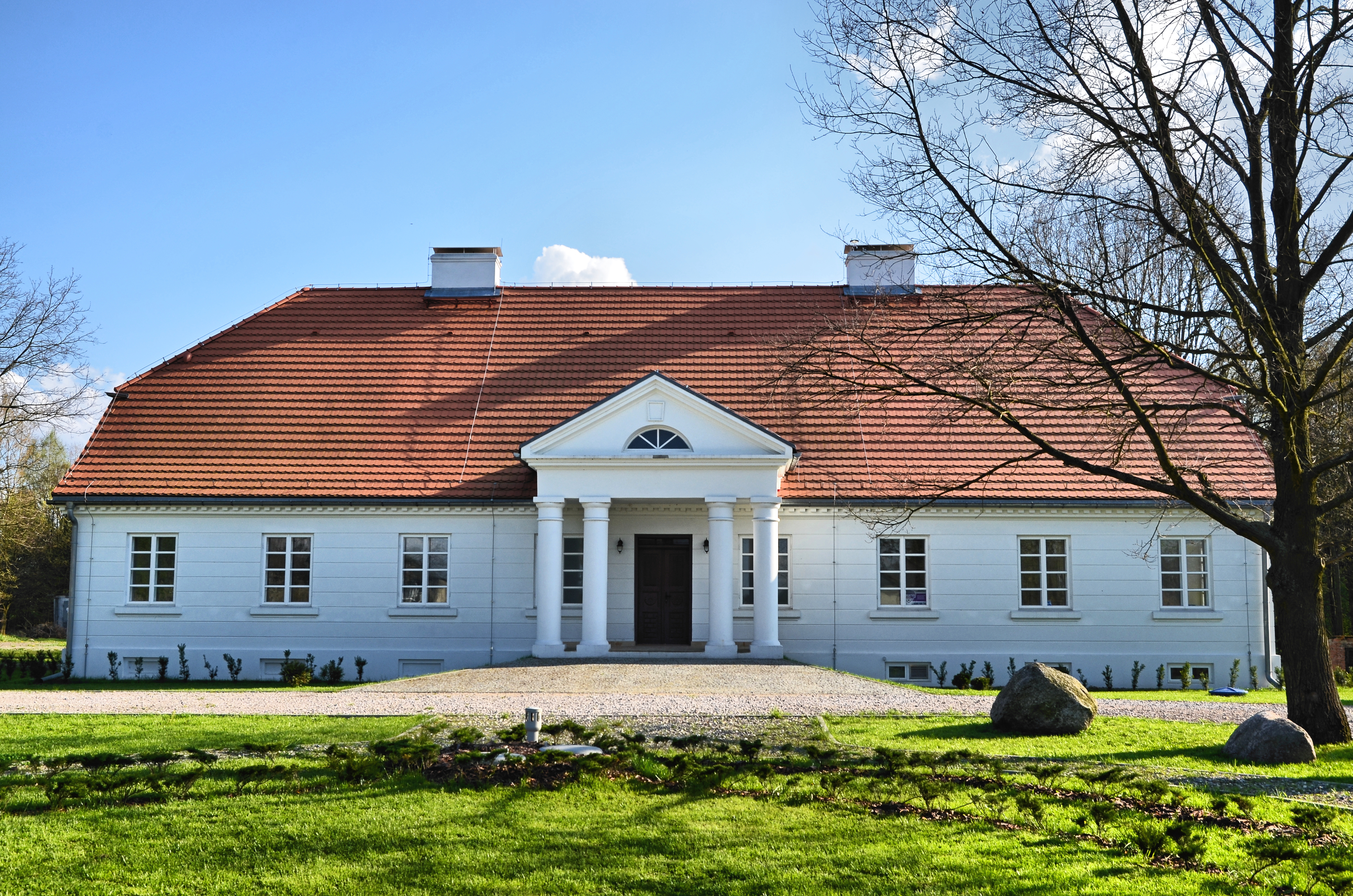 Little manor in Byszewy after renovation